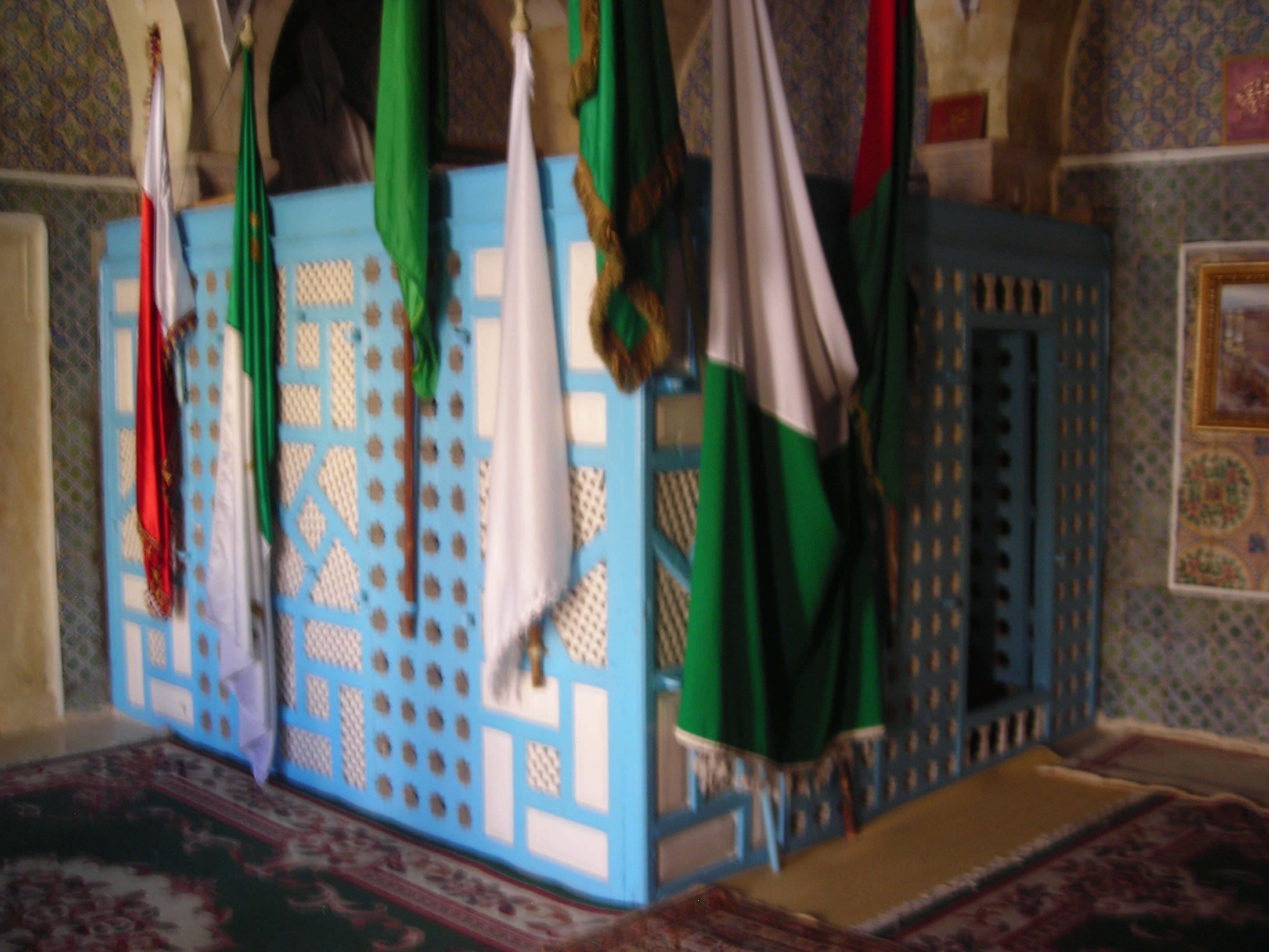 Zaouia of Imam Mezri